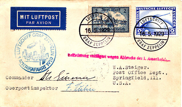 Flown cover carried on the DLZ127 "Graf Zeppelin" on the "Interrupted Flight" (1 Amerikafahrt 1929) and autographed by the airship's commander, Dr. Hugo Eckener. Mails carried on the flight received a one-line cachet in German reading "Beförderung verzögert wegen Abbruchs der 1. Amerikafahrt." ("Delivery delayed due to cancellation of the 1st America trip") and were held at Friedrichshafen until August 1, 1929, when the airship made another attempt to cross the Atlantic for Lakehurst, arriving on August 4, 1929. The cover is addressed to William A. Steiger who spent 32 years at the Springfield, ILL, Post Office (1918-50) in a variety of roles including chief assistant to Postmaster William H. Conkling in charge of Air Mail services in the 1920s and 1930s to Postmaster when he retired. Source: The Cooper Collection of Zeppelin Postal History Photograph by uploader.